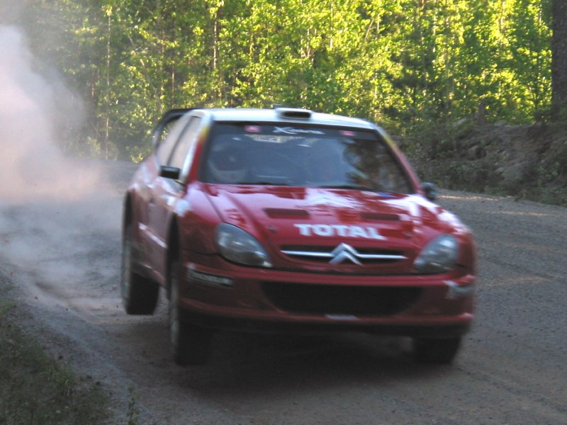 Citroën World Rally Team with their drivers Sébastien Loeb and Thomas Rådström testing in Finland in May, 2002.